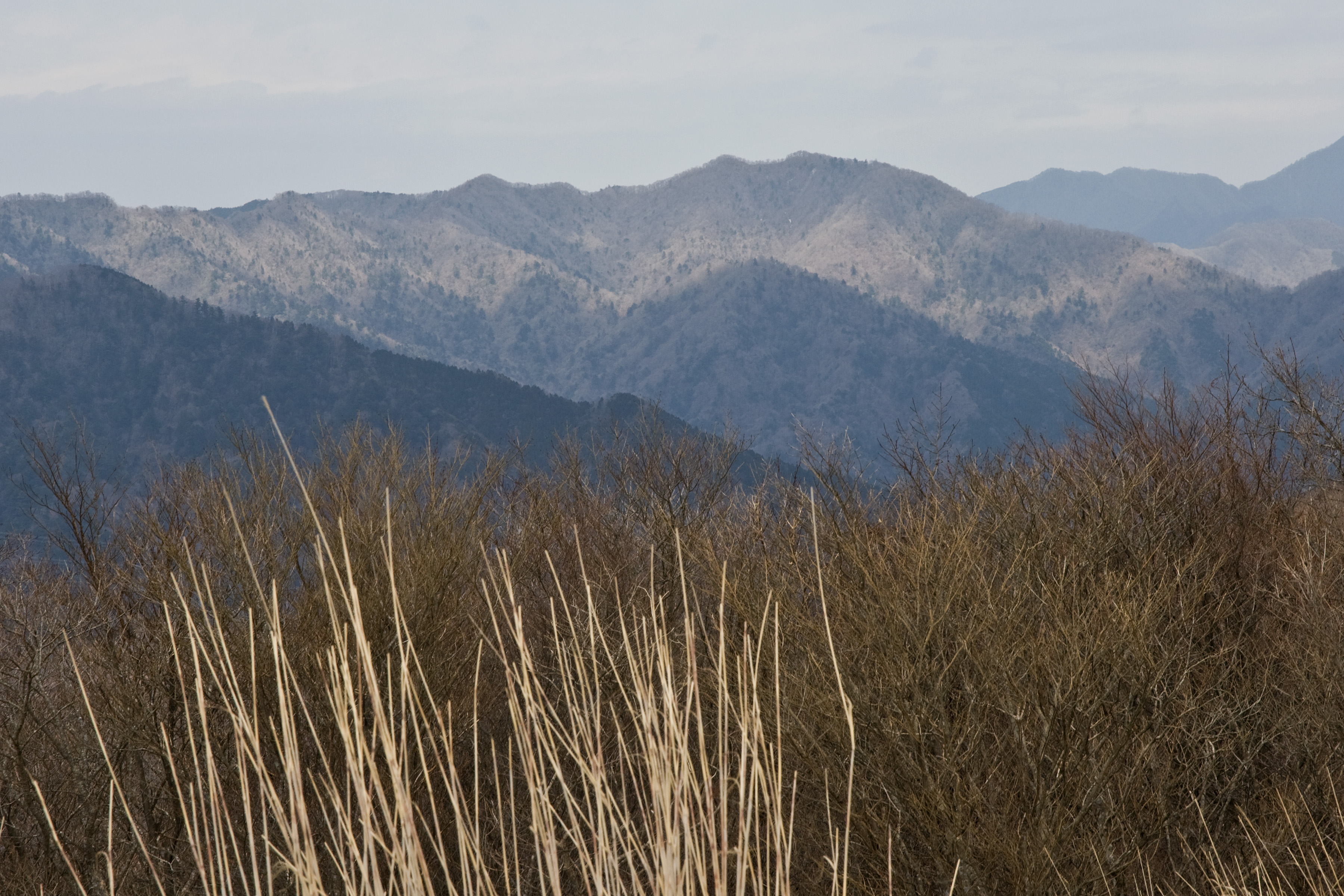 Mt.Komotsurushi as seen from Mt.Teppoginoatama, Mts.Tanzawa, Japan.